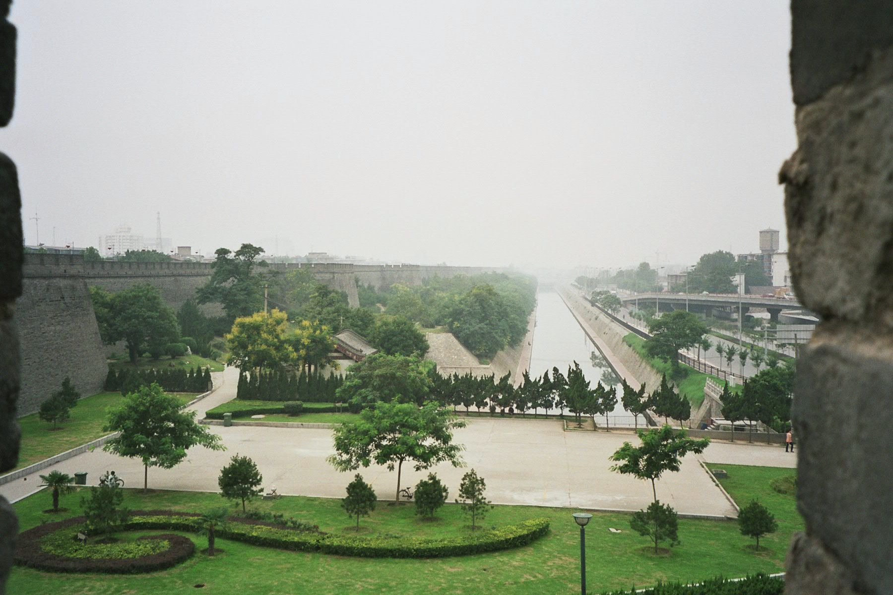 City Wall in Xi'an, China, September 2006.